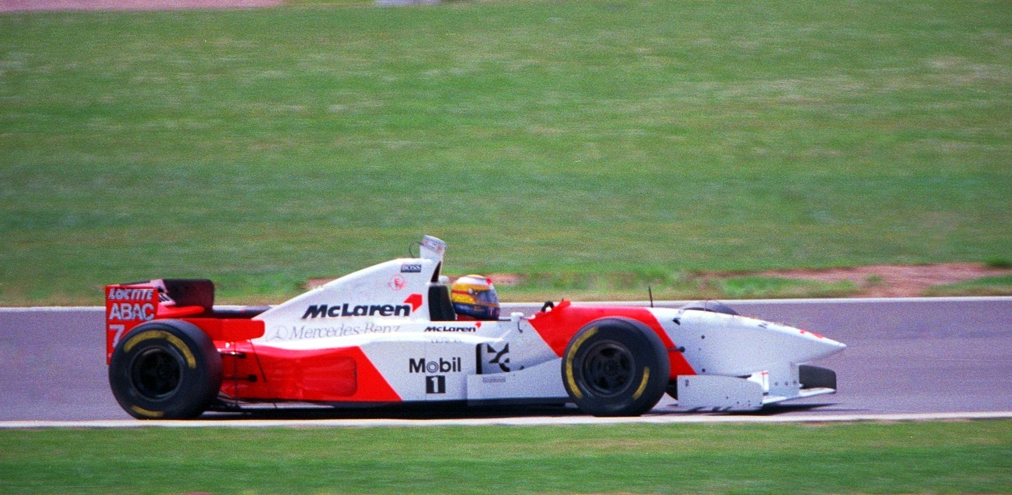 1995 British Grand Prix